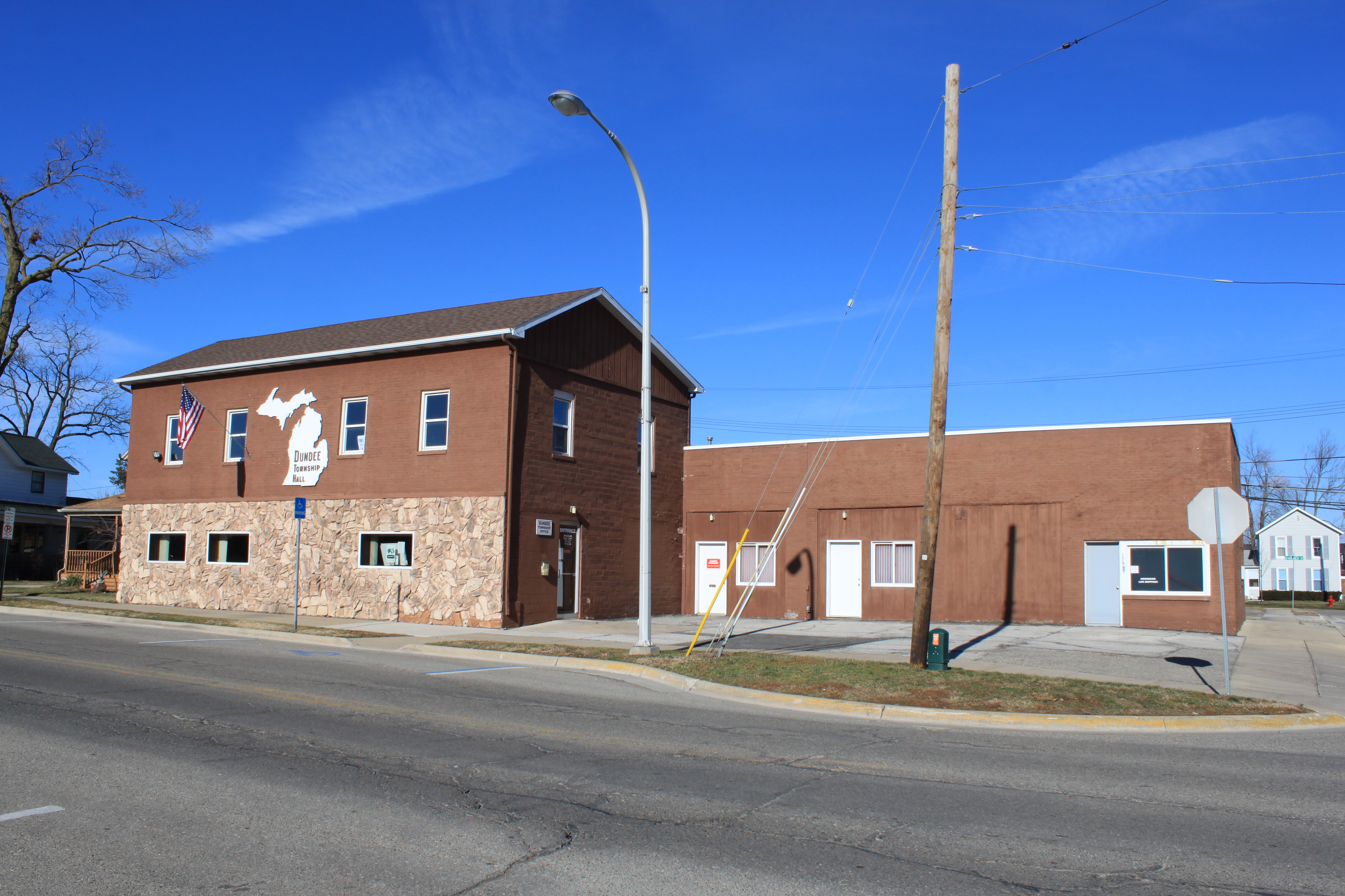 Dundee Township Hall, 179 Main Street, Dundee, Michigan.